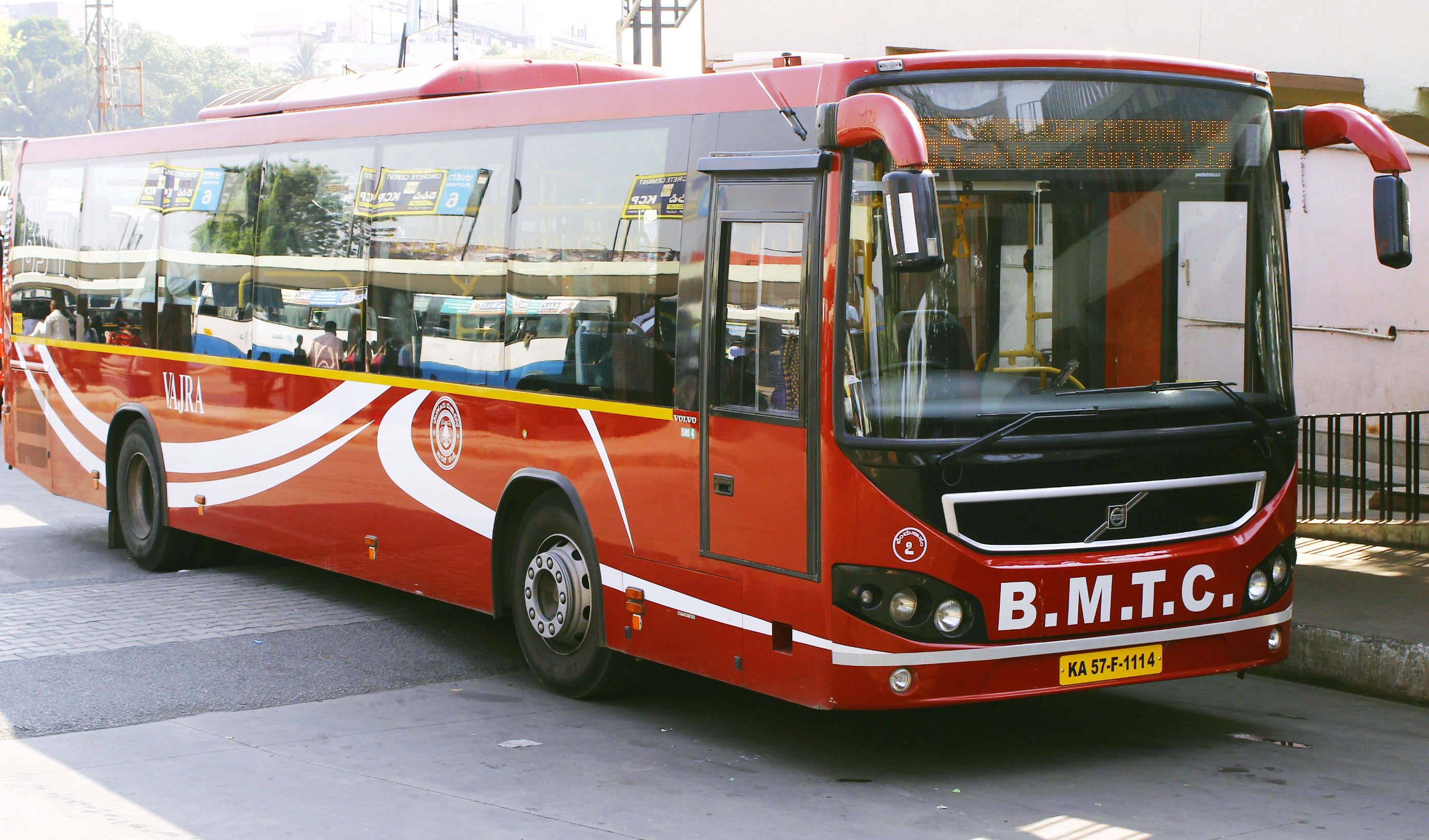 BMTC Vajra - Volvo BS4